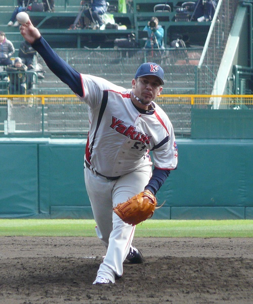 Orlando Roman